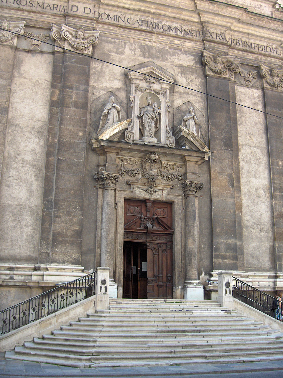 Façade of the Dominikanerkirche in Vienna, Austria